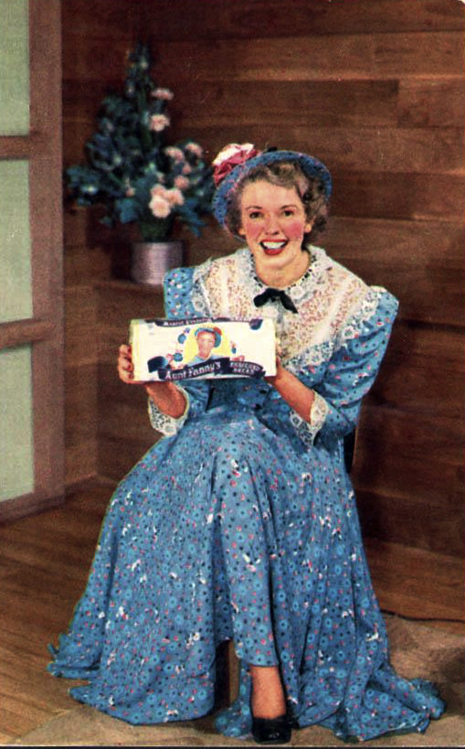 Photo postcard of Fran Alison as Aunt Fanny for Aunt Fanny's enriched bread. Allison played this character on the radio program The Breakfast Club for many years--even before Kukla, Fran and Ollie. Allison also performed the character on television as part of the program Ozark Jubilee in the mid to late 1950s. Ozark Jubilee ended in 1960 and Don McNeill's Breakfast Club ended in 1968.